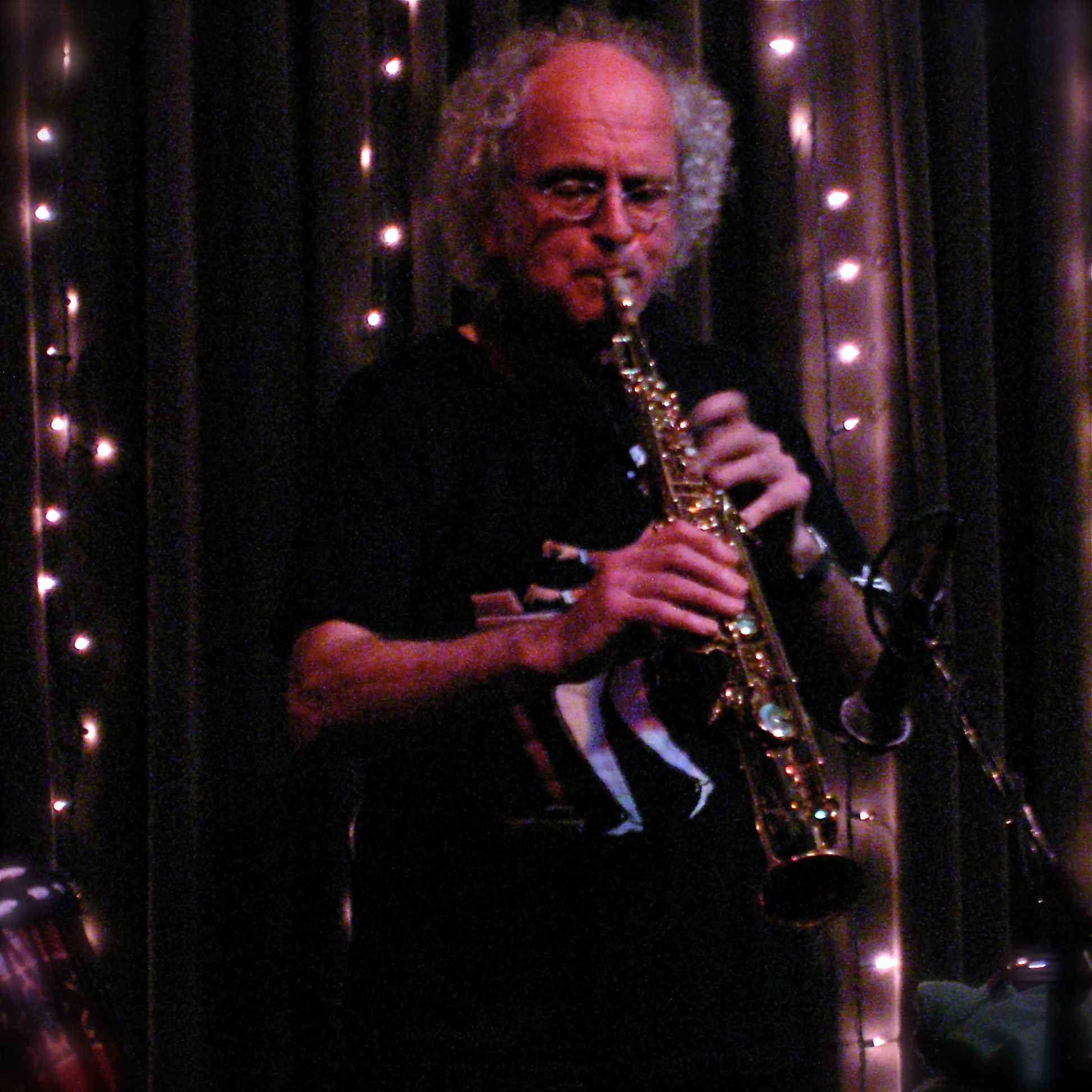 Trevor Watts on alto saxophone, performing at Eddie's Attic in Decatur GA USA on 25 Oct 2007